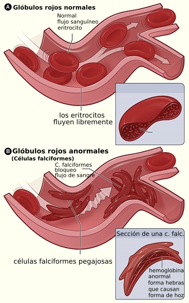 Figure A shows normal red blood cells flowing freely in a blood vessel. Figure B shows abnormal, sickled red blood cells blocking blood flow in a blood vessel.